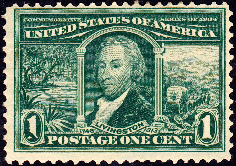 Robert_Livingston33_1904_Issue-1c.jpg